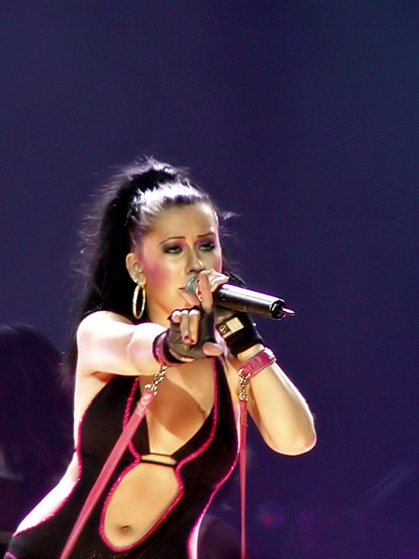 Christina Aguilera on the Stripped Tour